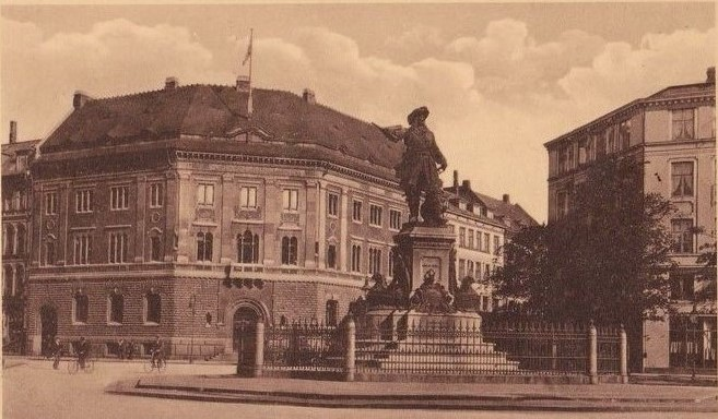 The Niels Juel statue with the original ØK Building as a backgrop in Copenhagen, Denmark. The latter was destroyed during World War II.